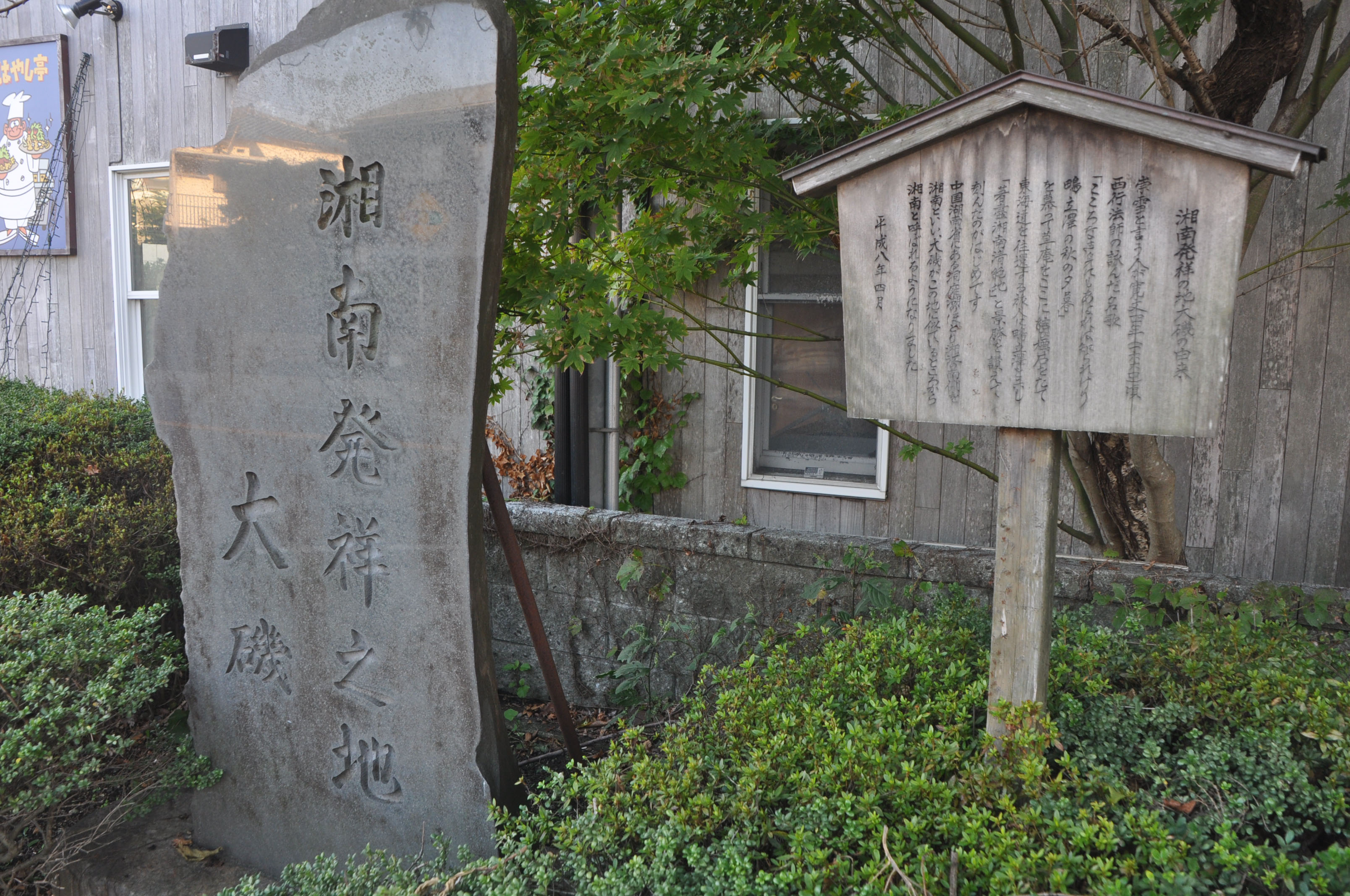 A stele erected by Oiso, Kanagawa: "Shonan" was used in 1664, when Shigitatu-an (鴫立庵) was reconstructed by Sosetsu (宗雪).